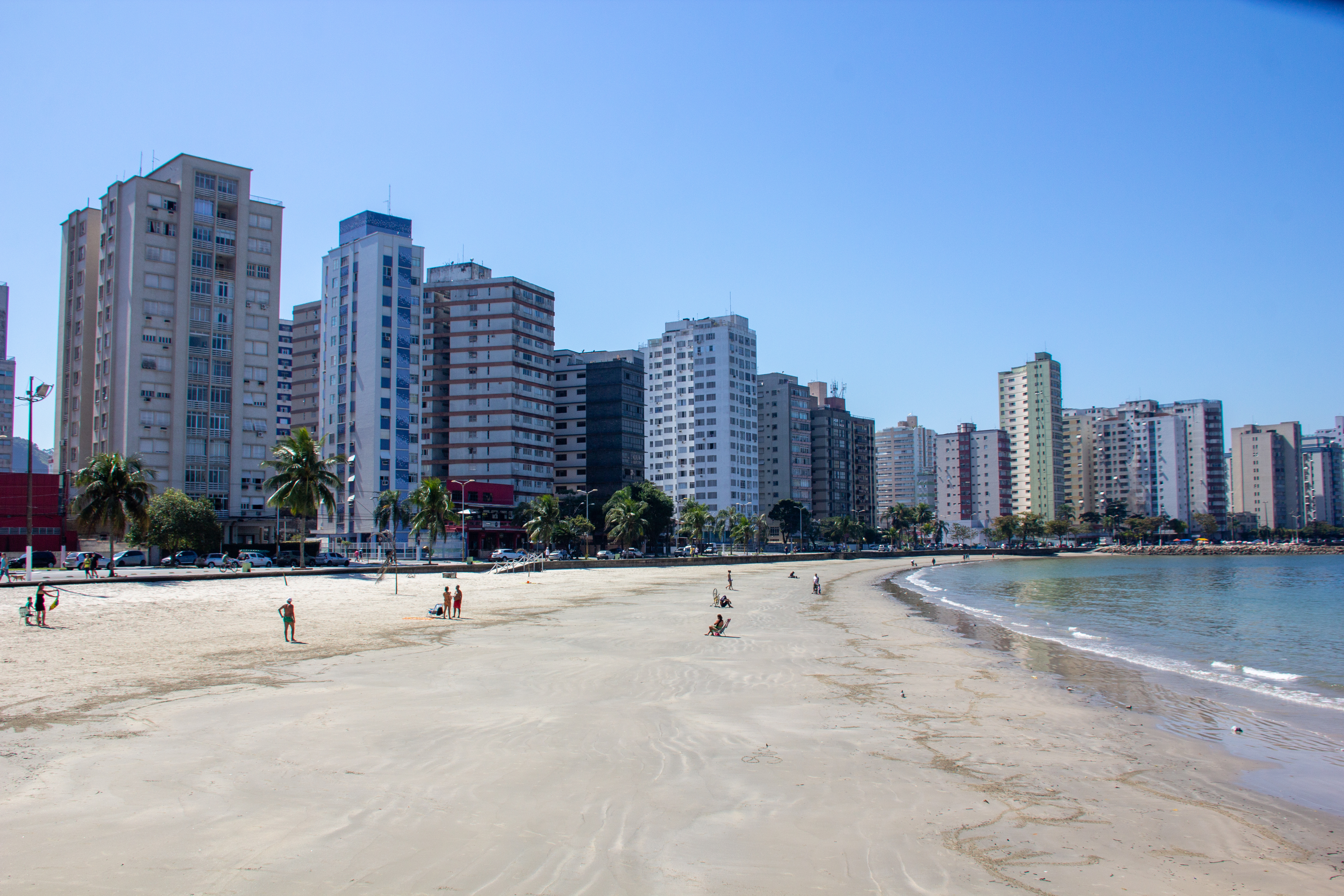 At São Vincente, São Paulo State, Brazil